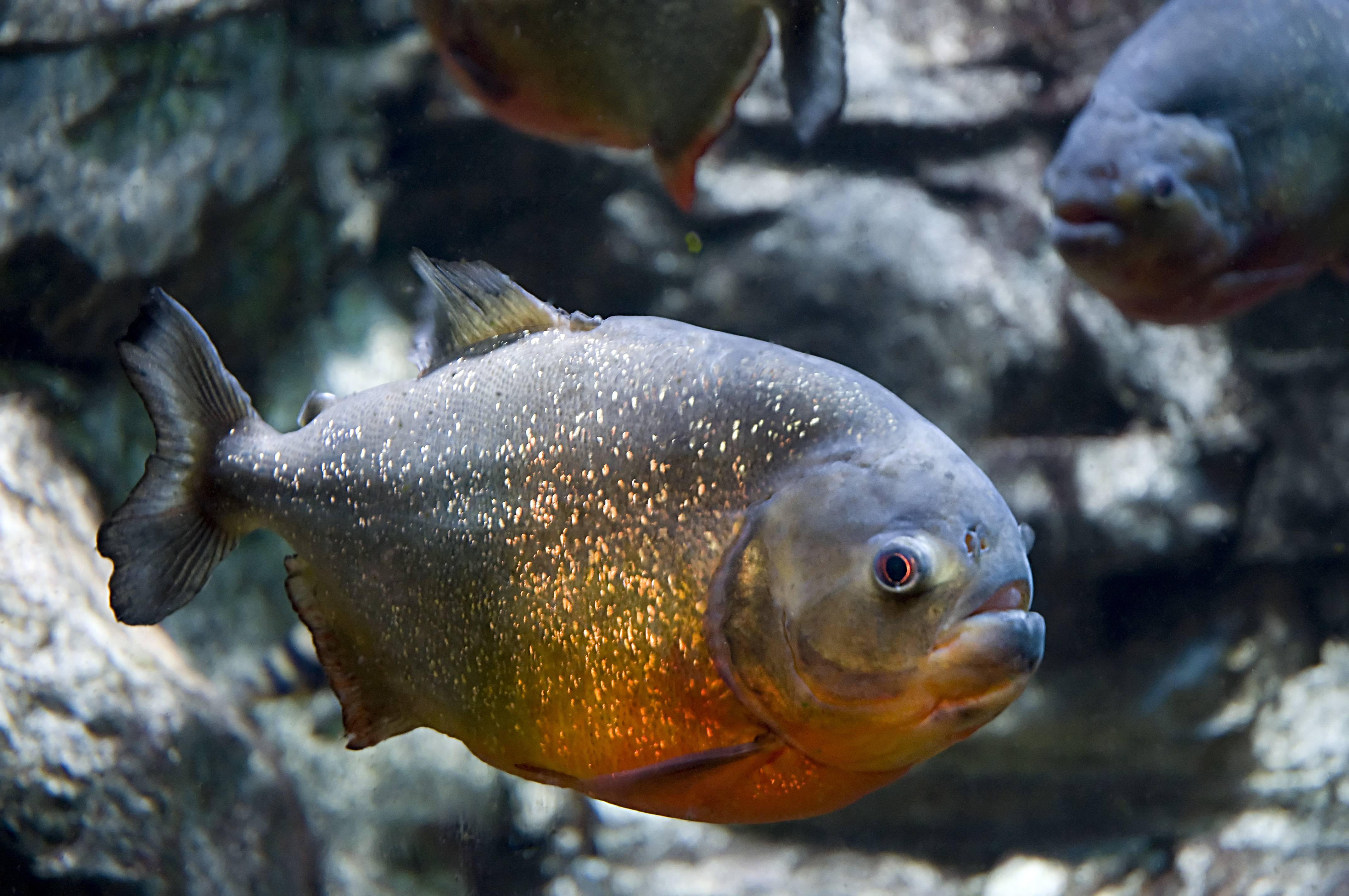 Although they have a reputation of being very aggressive, they are very sociable fish living in schools in the wild. Adult red-bellied piranhas tend to feed on worms, insects and other fish mostly at night and dawn, while juvenile feed during the day.